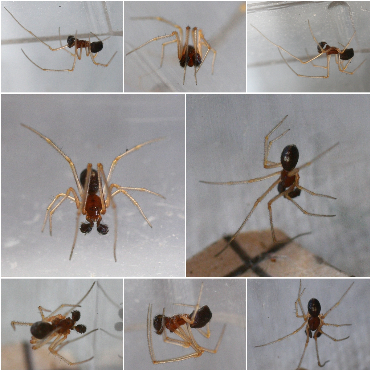 Neottiura bimaculata (= Theridion bimaculatum) (Theridiidae). Approx 1.9mm long. Fourth leg femora with semi-transparent triangular cuticular spine at base (length approx the width of femur). Head region with pair slightly wavey hairs projecting up & forwards. From low tree branches beside woodland ride. Reared for a week until moulted to maturity. Bricket Wood Common, Hertfordshire, England, 21st May 2012. More Info... Species Summary from Spider Recording Scheme Map from NBN Gateway Pavouci CZ Jorgen Lissner - female